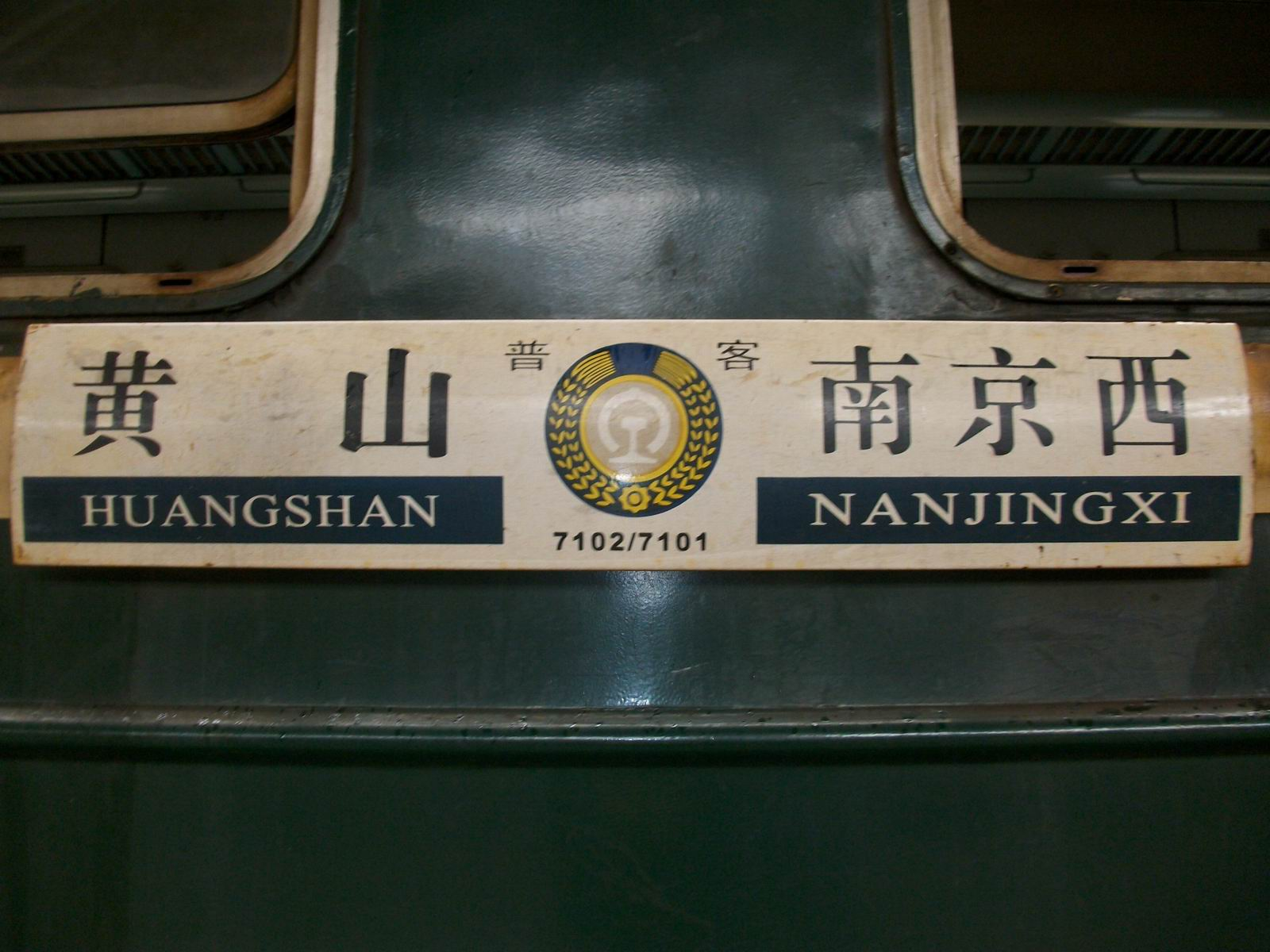 Board of 7102.